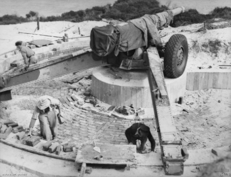 AWM caption : "GARDEN ISLAND, WA. 1943-07-15. 155 MM M1917/M1918 BATTERY - NORTH WEST CORNER OF THE ISLAND." This was known as "Challenger" and "J" battery.